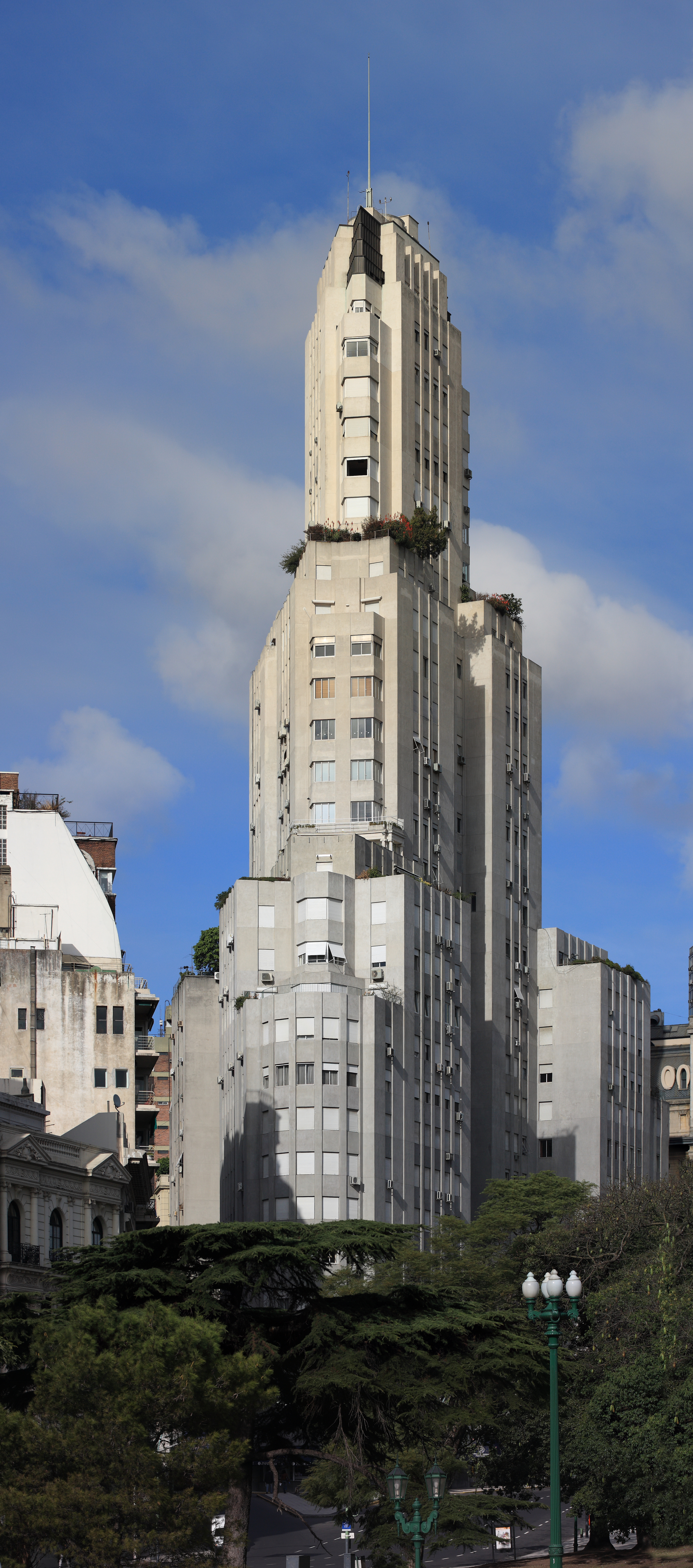 Kavanagh Building, Buenos Aires, Argentina